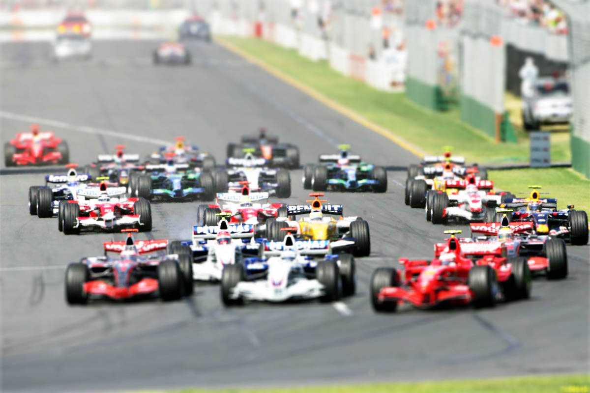 Formula One's 2007 Australian Grand Prix's start.